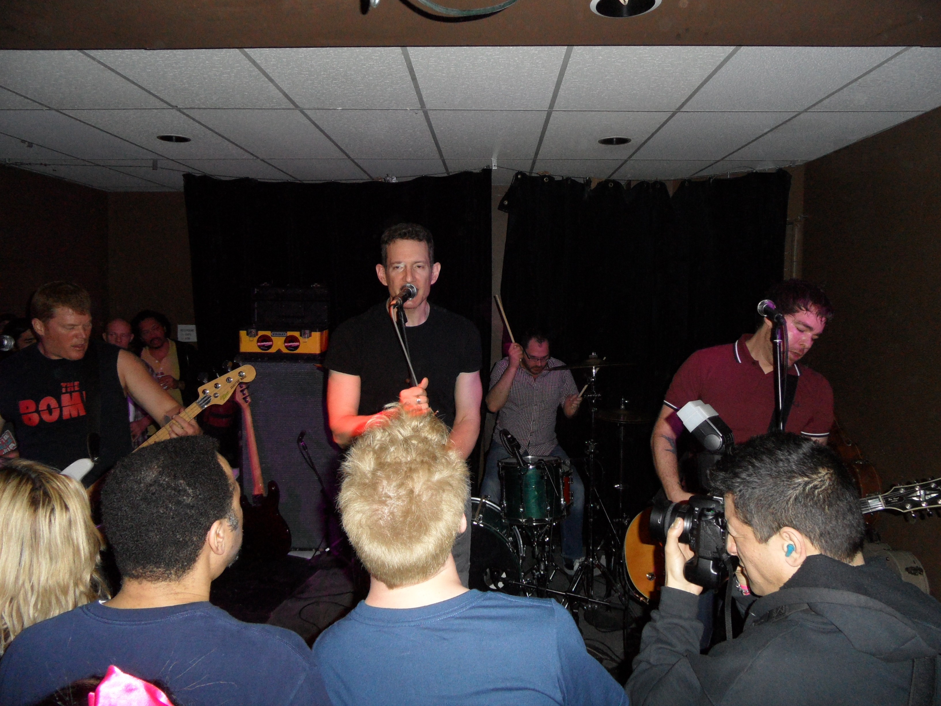 The Bomb, performing at Township in Chicago L-R: Pete Mittler (bass), Jeff Pezzati (vocals), Mike Soucy (drums), Jeff Dean (guitar)